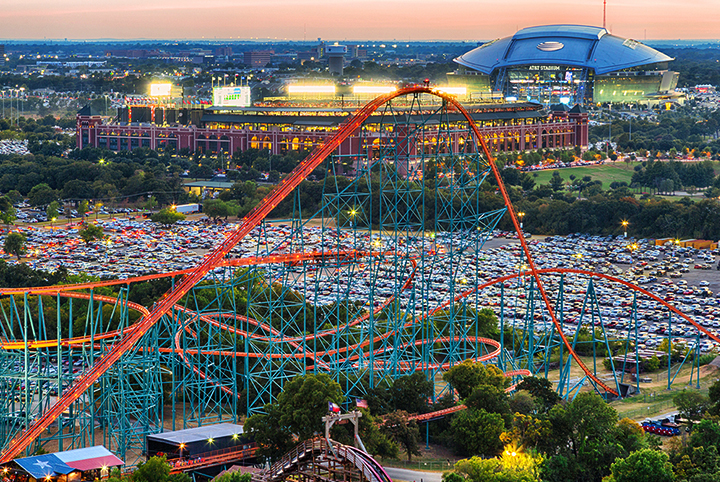 Stock photograph of Arlington Texas Entertainment District